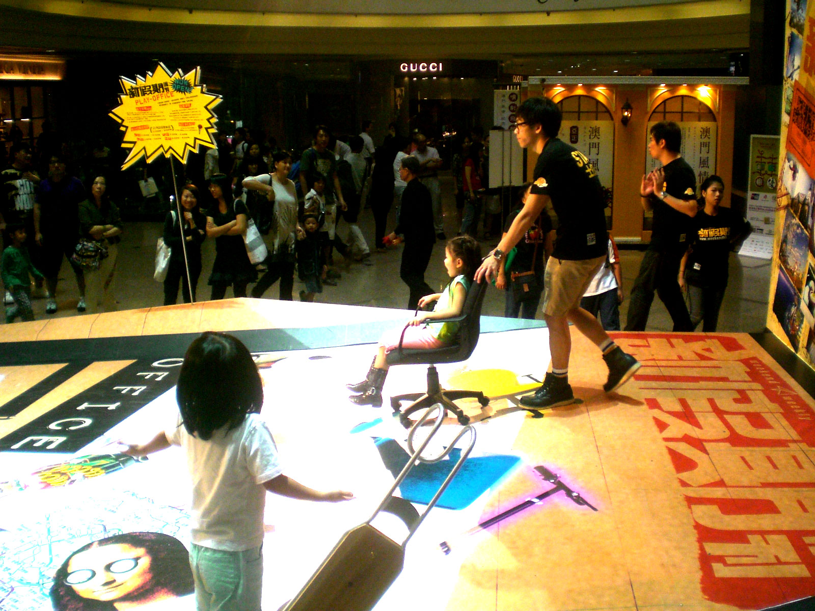 新假期展覽 @ 香港時代廣場 on November, 2009